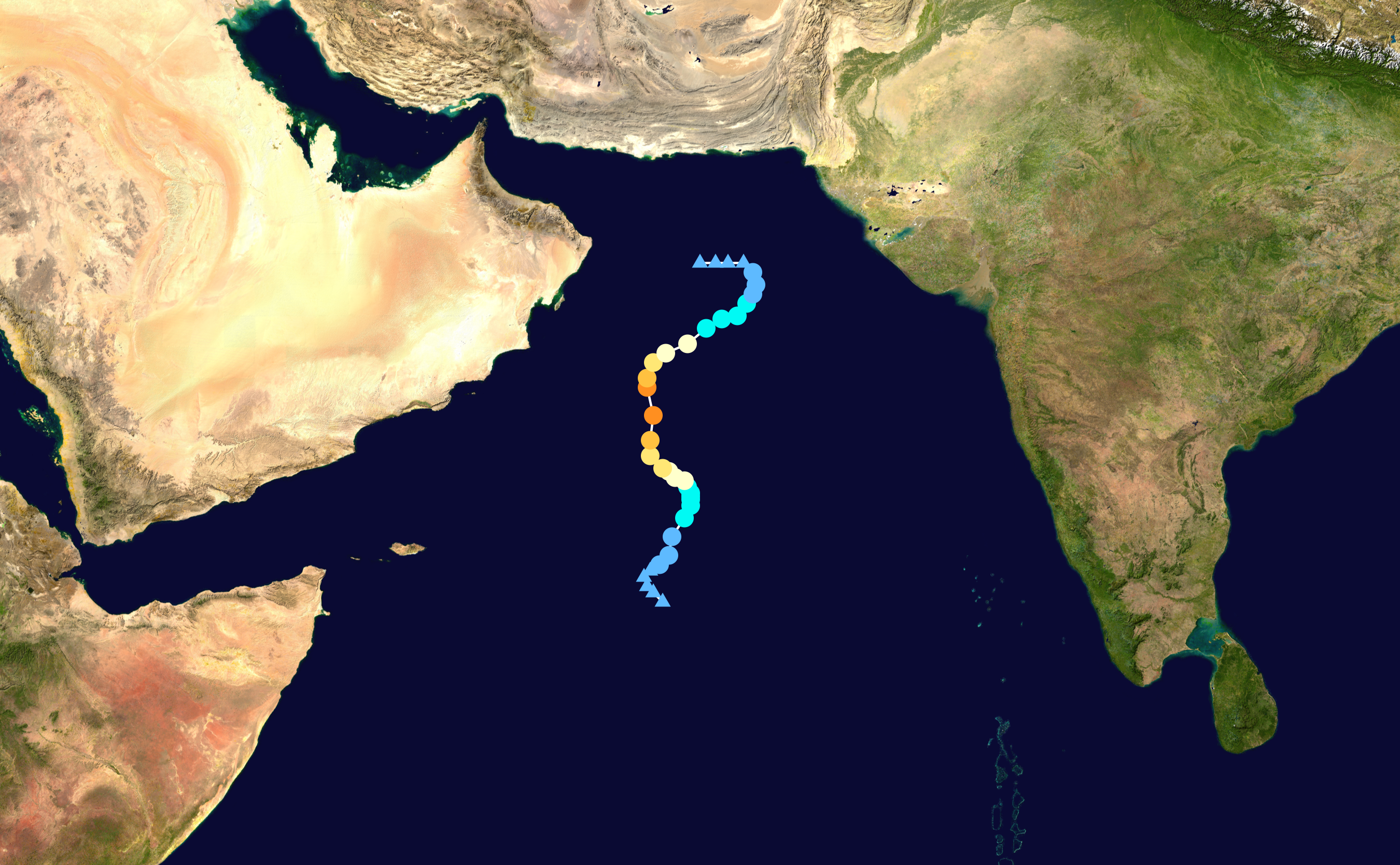 Track map of Extremely Severe Cyclonic Storm Nilofar of the 2014 North Indian Ocean cyclone season. The points show the location of the storm at 6-hour intervals. The colour represents the storm's maximum sustained wind speeds as classified in the Saffir–Simpson scale (see below), and the shape of the data points represent the nature of the storm, according to the legend below. Saffir–Simpson scale Tropical depression≤38 mph≤62 km/h Category 3111–129 mph178–208 km/h Tropical storm39–73 mph63–118 km/h Category 4130–156 mph209–251 km/h Category 174–95 mph119–153 km/h Category 5≥157 mph≥252 km/h Category 296–110 mph154–177 km/h Unknown Storm type Tropical cyclone Subtropical cyclone Extratropical cyclone / Remnant low / Tropical disturbance / Monsoon depression